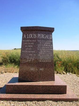 Stèle commémorative de Louis Pergaud.